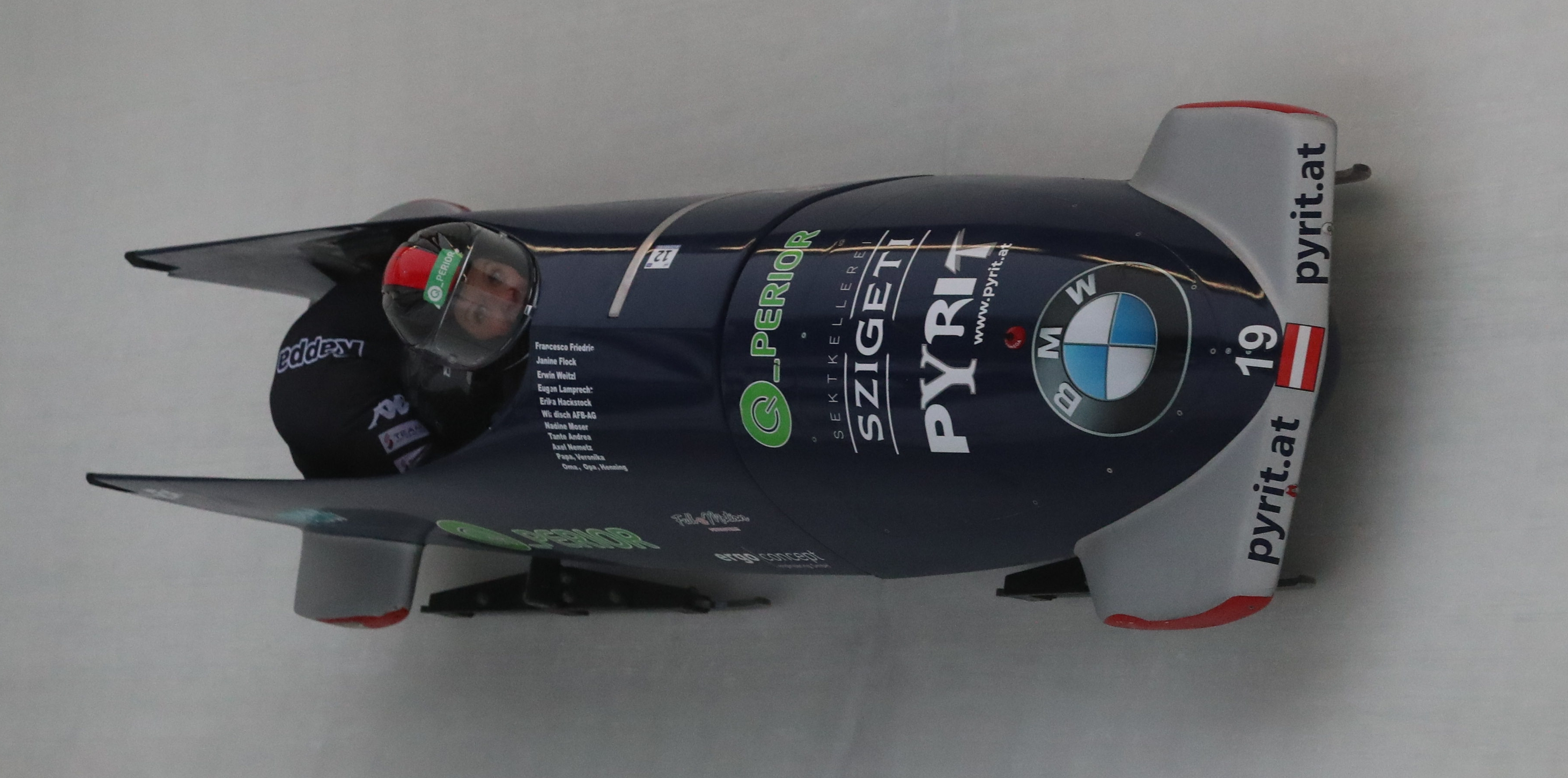 2-man Bobsleigh Women's World Cup race at the 2018/19 Bobsleigh World Cup in Altenberg